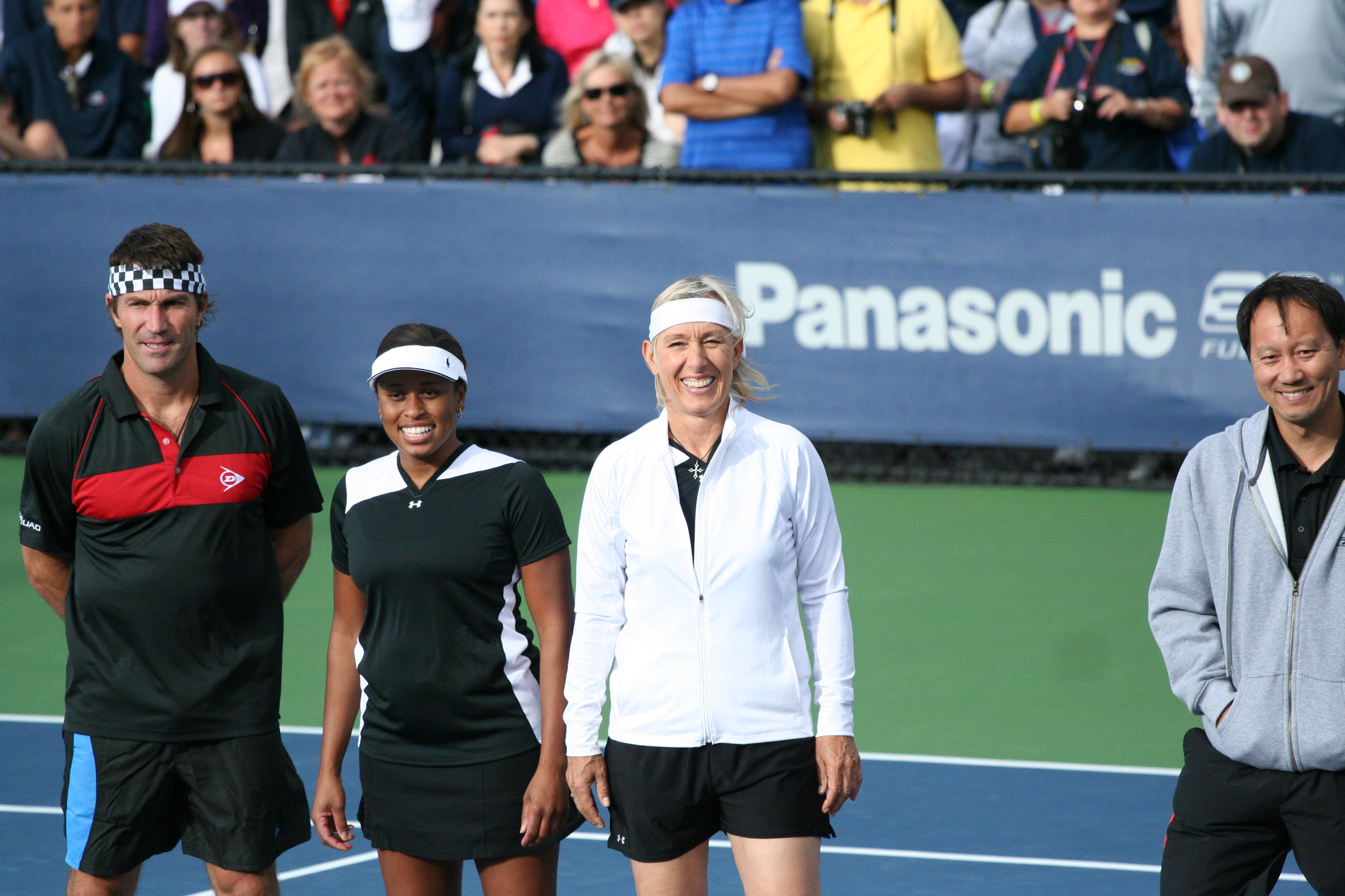 U.S. Open Champions Team Tennis Sept. 9, 2010